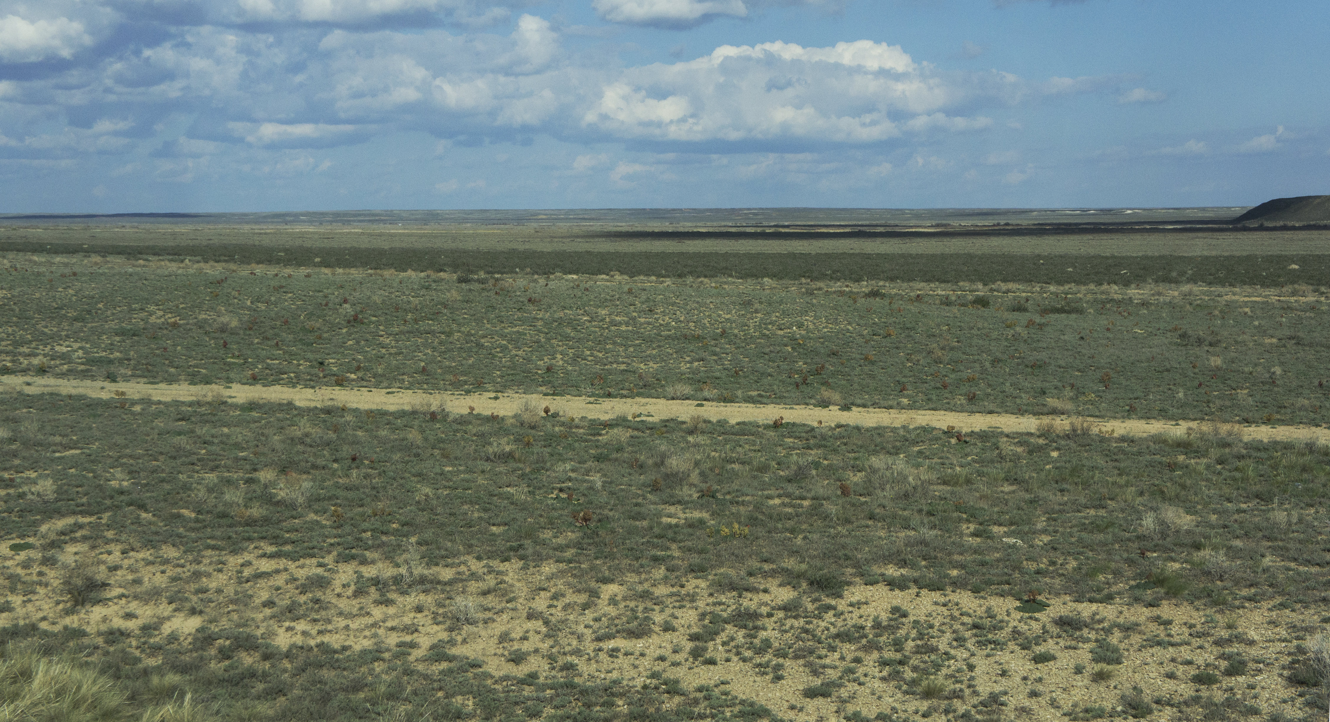 Steppe of Kazakhstan.